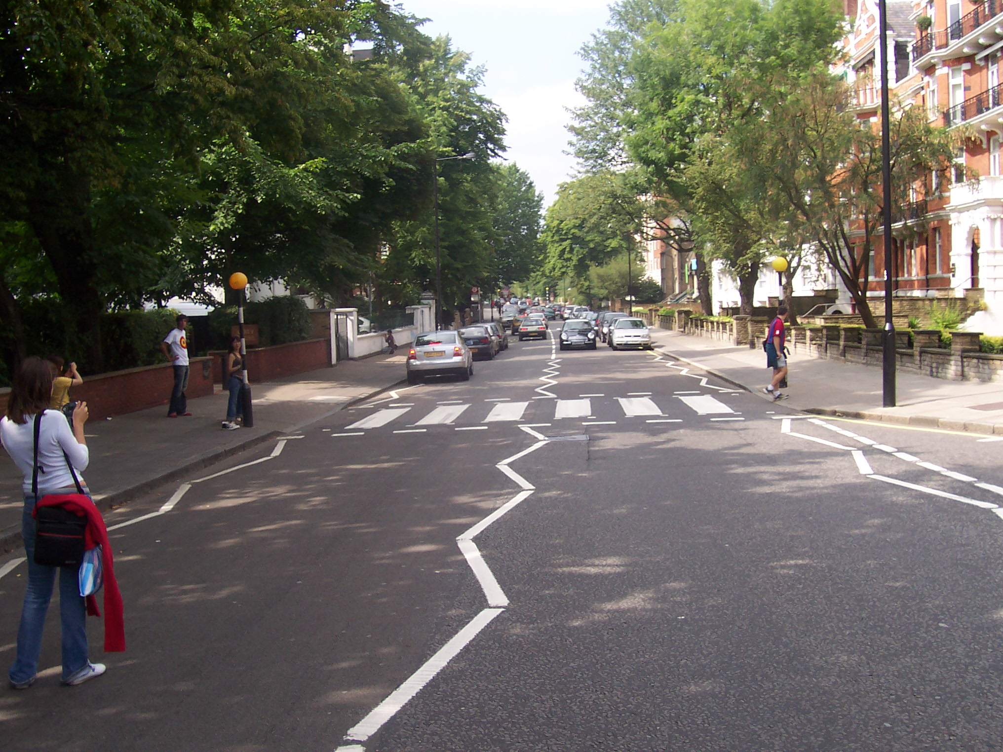 Picture of Abbey Road in London. Abbey Road Studios can be seen in the background. Picture taken in summer of 2004. It is common for tourists to cross the road barefoot.